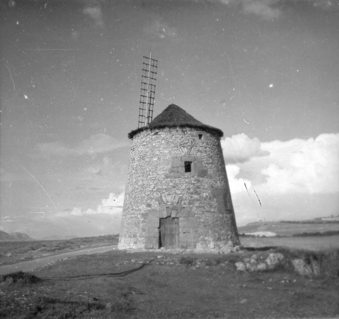 Windmill of Aixerrota, in Getxo.